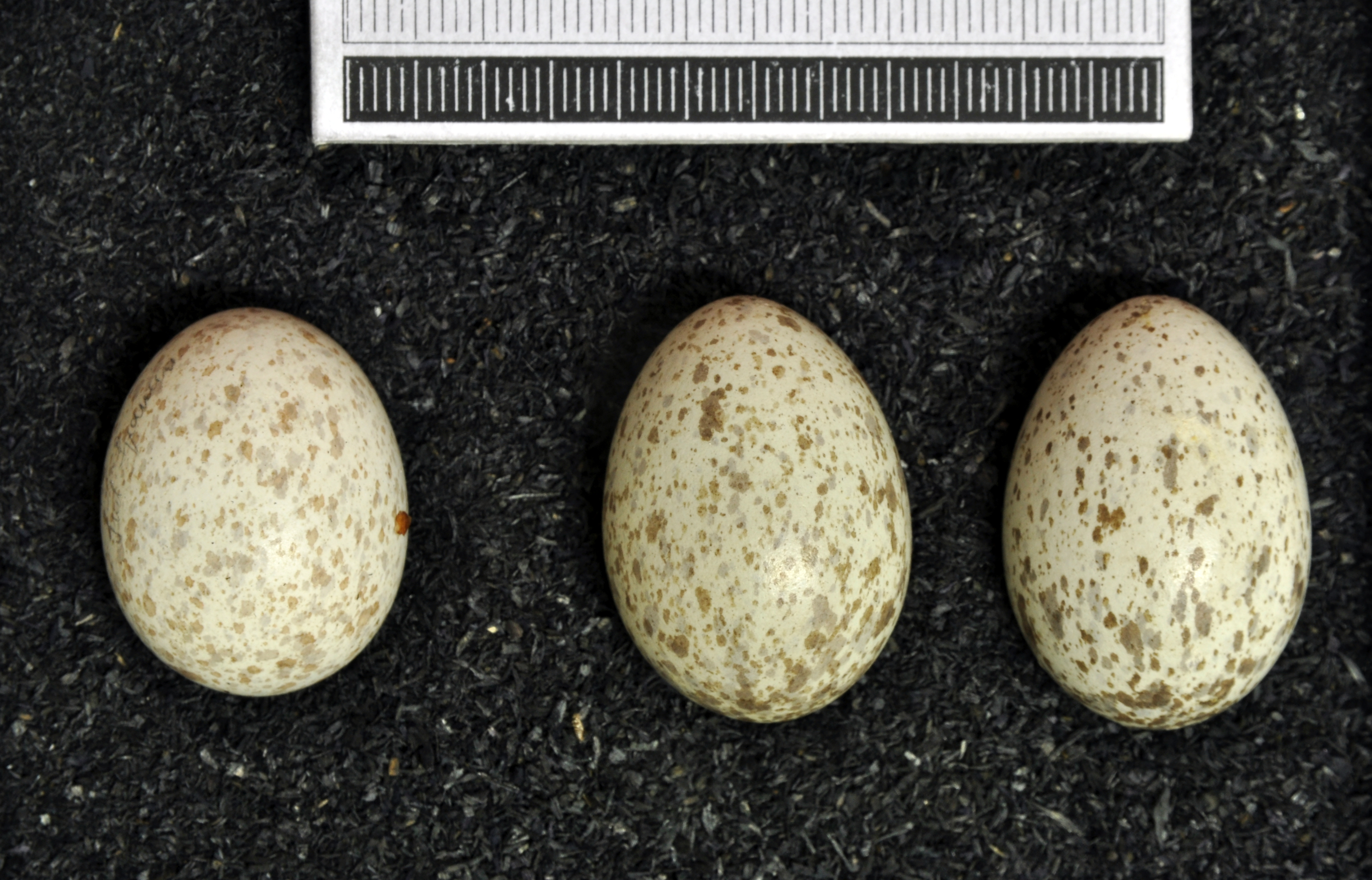 Great spotted cuckoo Clamator glandarius , egg (left) and Magpie Pica pica (two eggs on right side). Collected in Spain in 1895. Coll. Museum Wiesbaden